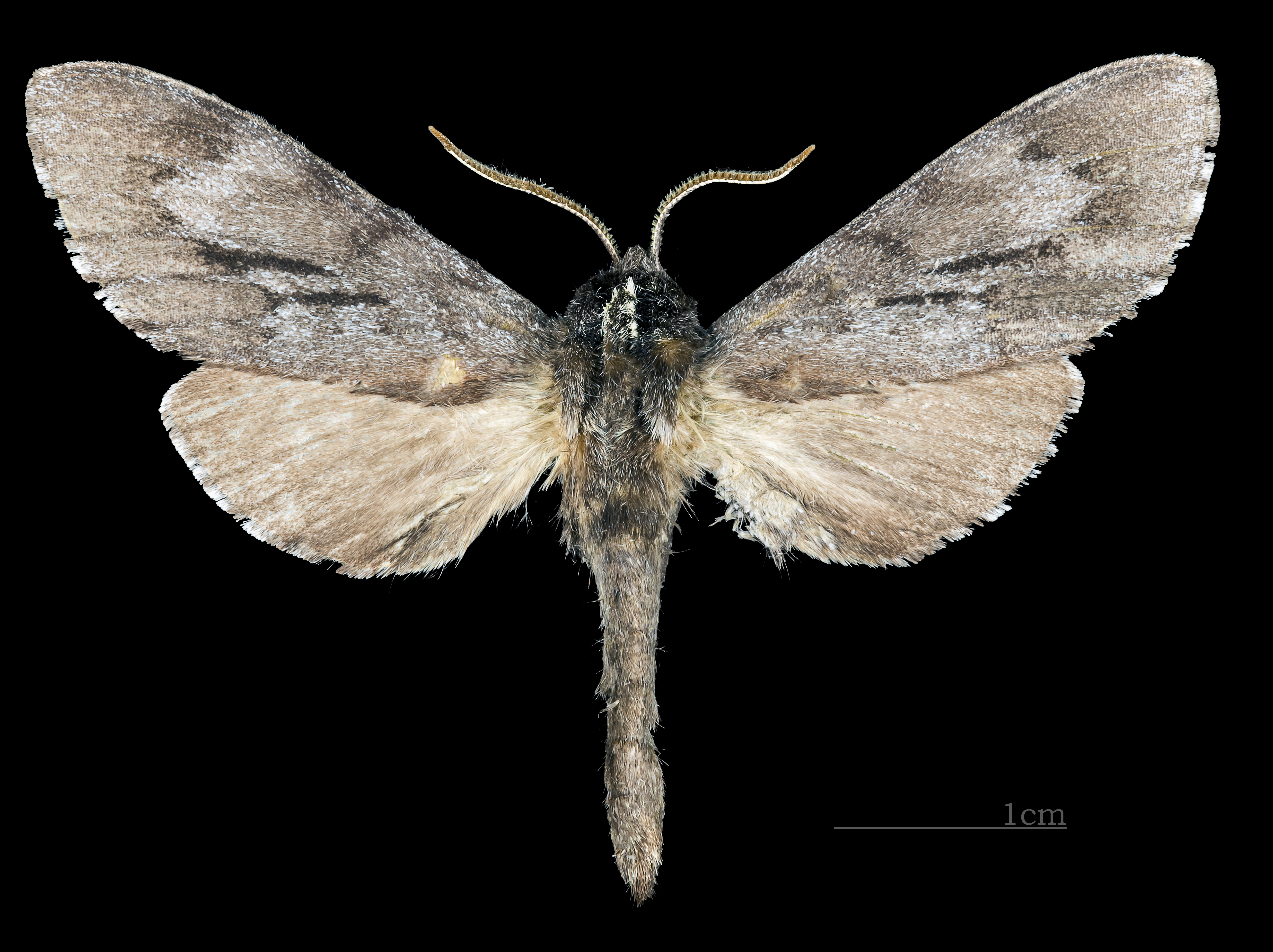 Southern Pine Sphinx - Dorsal side